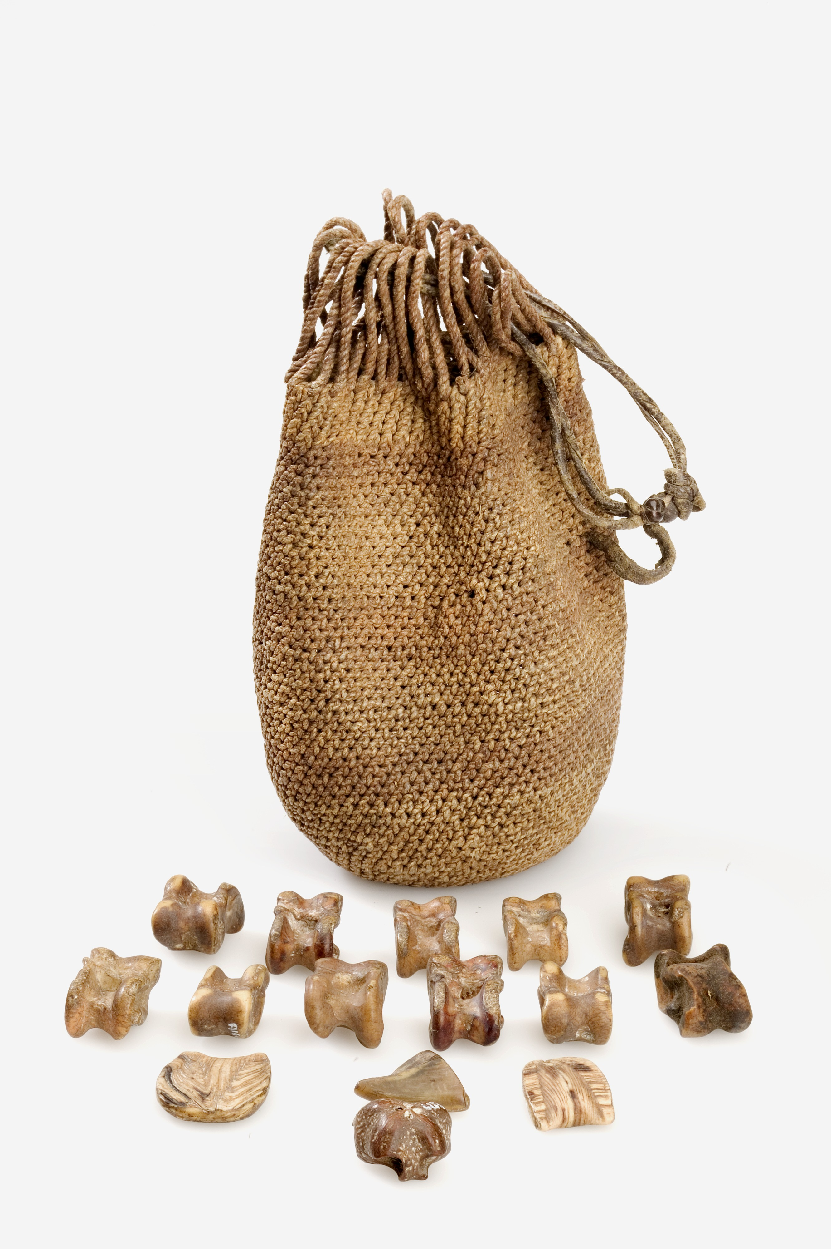 Bag with objects for divination. Africa, 1880-1920. Front view, white background. Wellcome Images